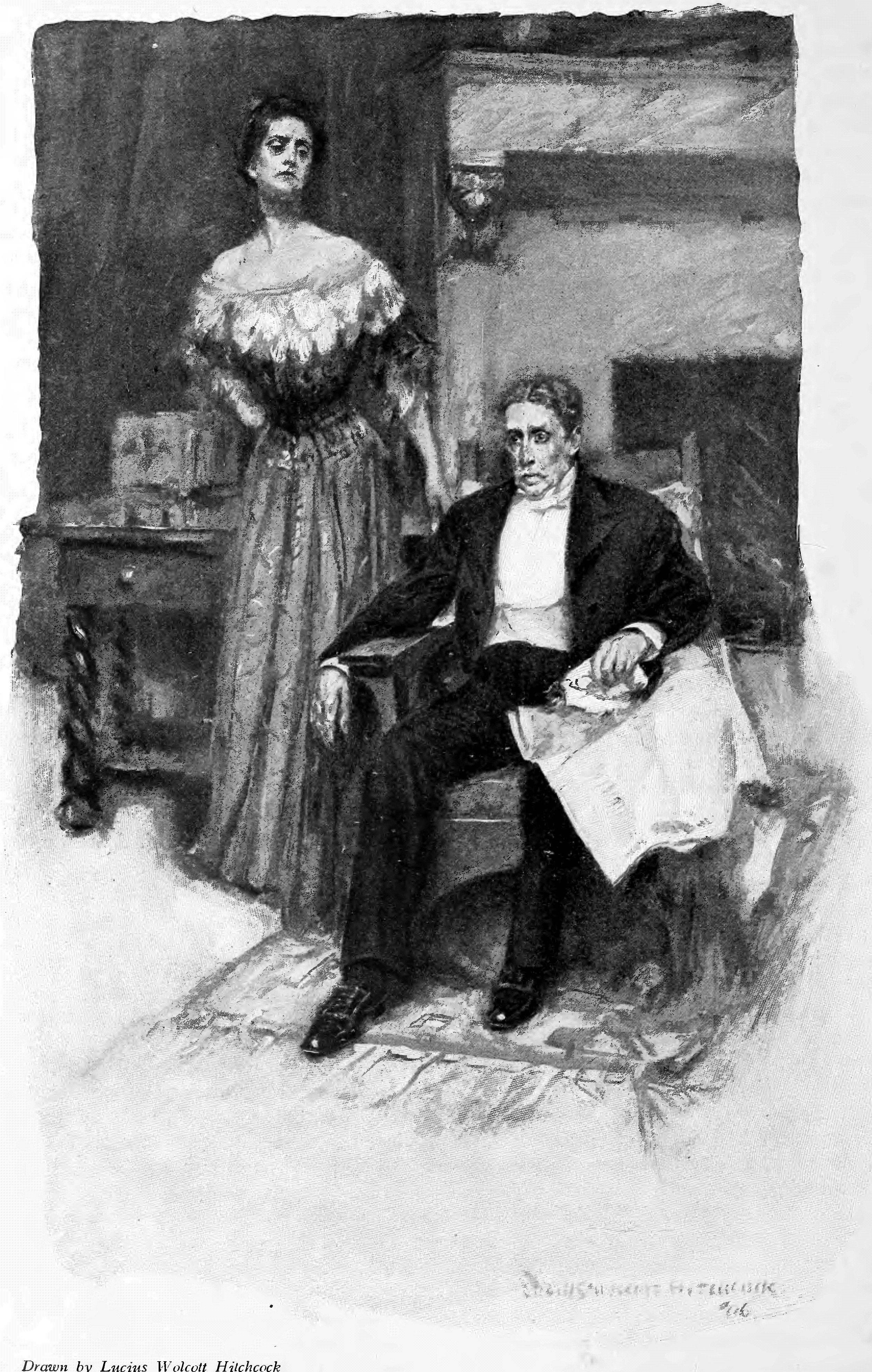 Page 102, Harper's Magazine, 1907. Extract of illus from scan for the story "The failure" by Jennette Lee. Illus by Lucius Wolcott Hitchcock